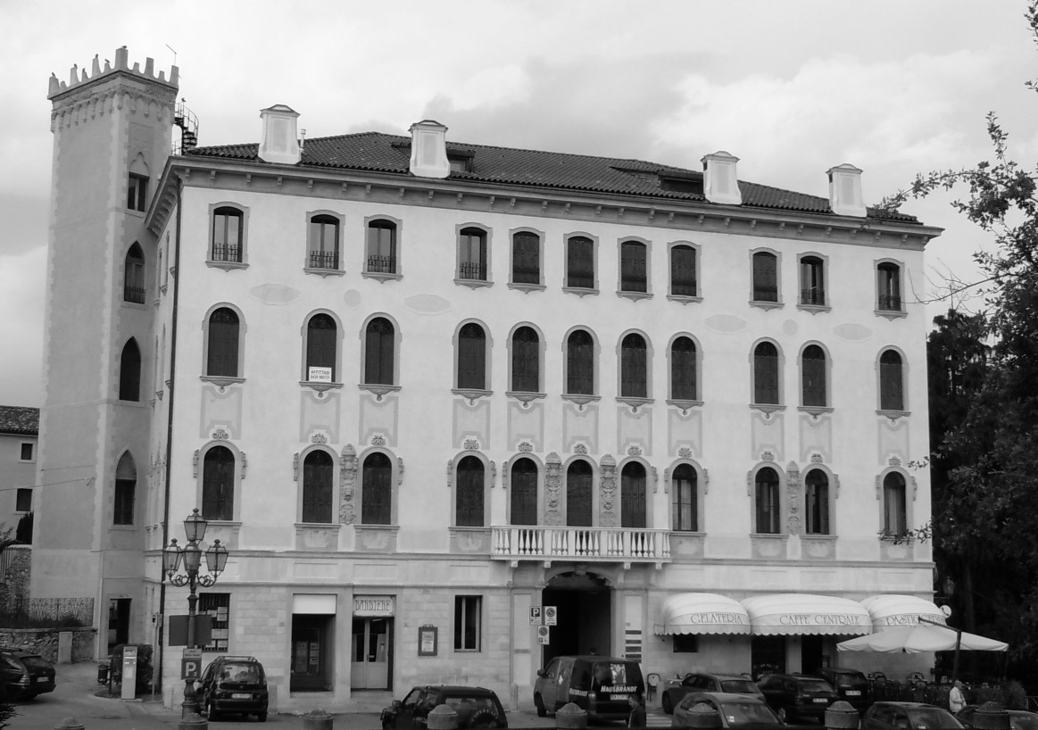 Pieve di Soligo: palazzo Balbi Valier